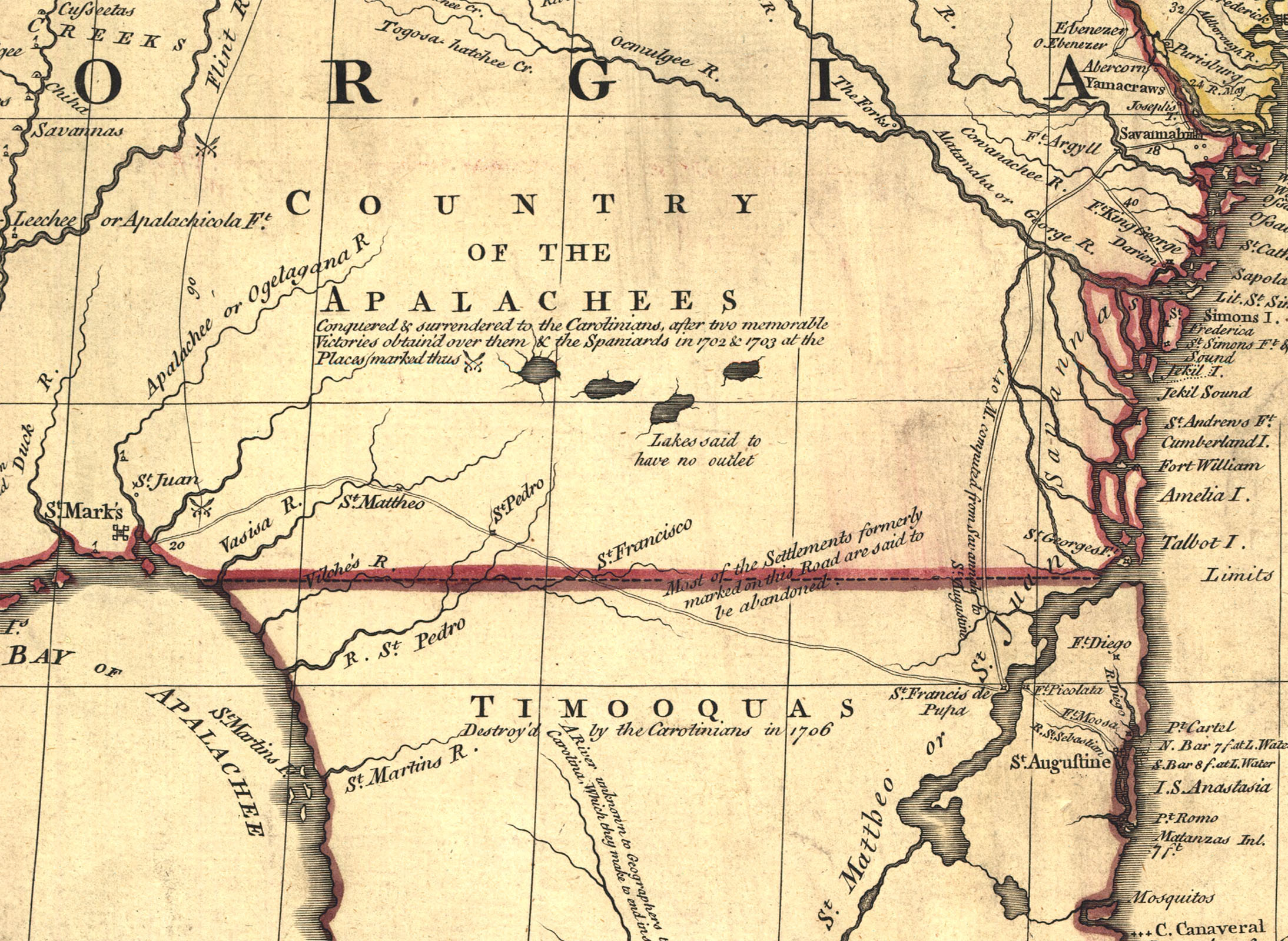 A part of the Mitchell Map - A map of the British and French dominions in North America,...; 1757 Shows boundary of Florida and Georgia.